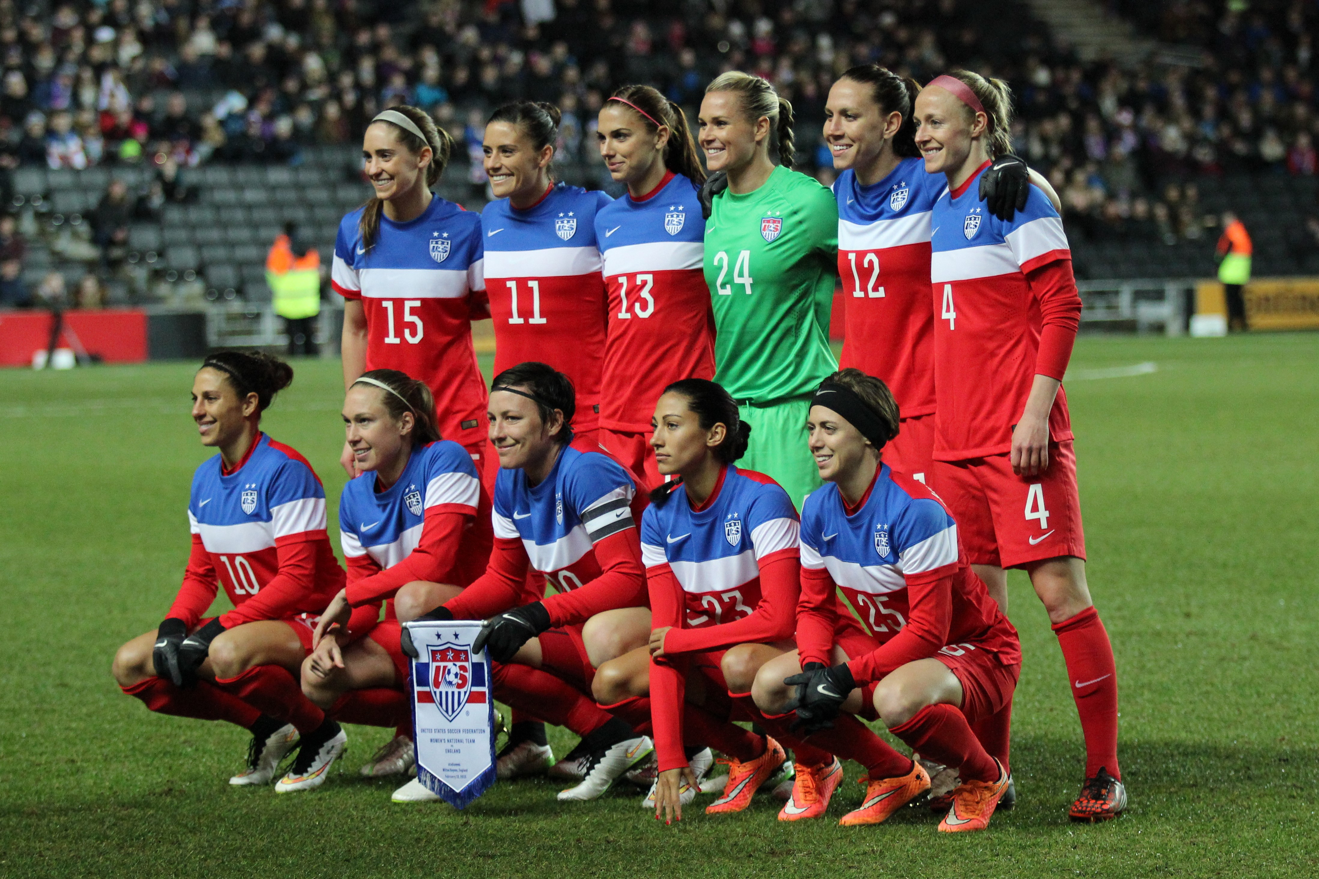 USA Women's before the international friendly against England.